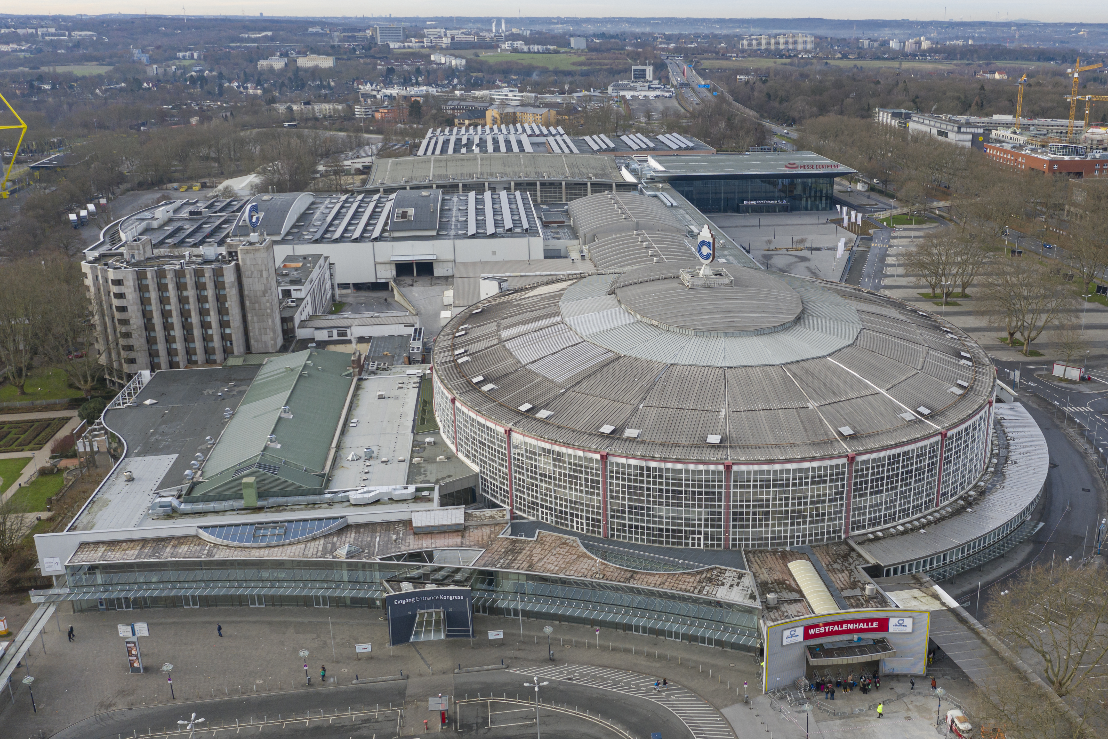 Westfalenhallen (